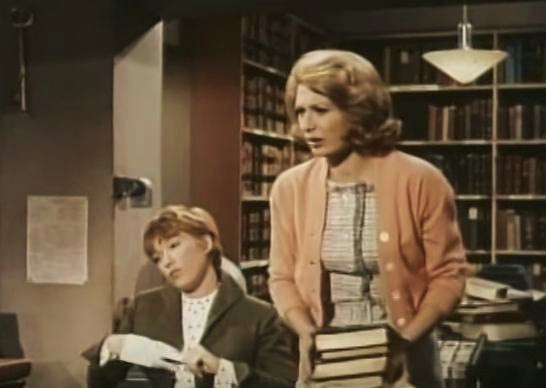 Shirley MacLaine (left) & Norma Crane in All in a Night's Work - trailer (cropped screenshot)